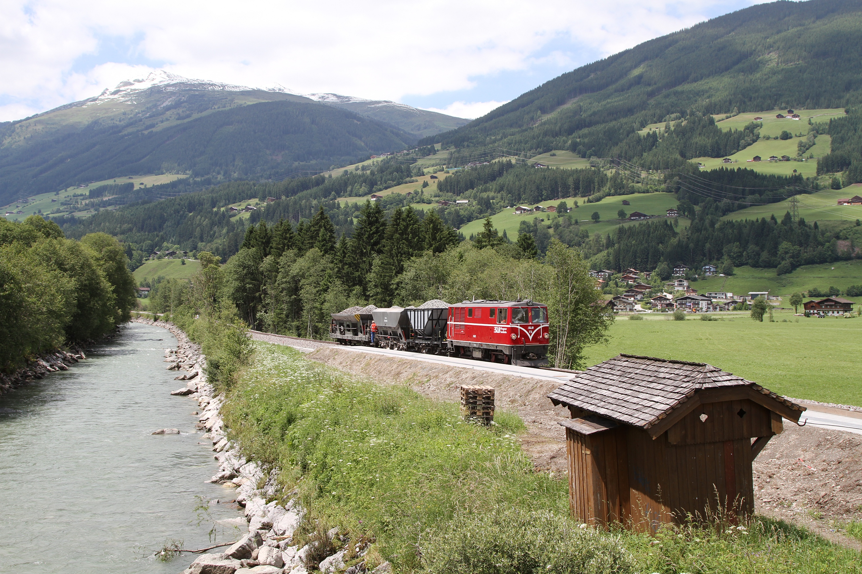 A ballast train passing Sulzbachtäler halt. The station shelter is awaiting to be placed on the platform. View heading NW, Neunkirchen-Venedigersiedlung, above Laubkogel (2317 m).